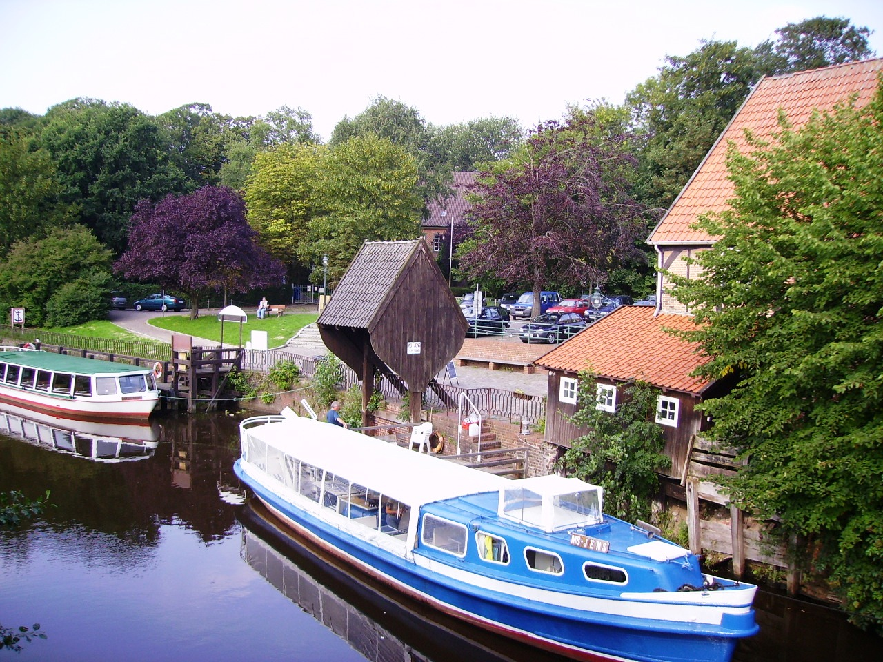 Launches MS “Onkel Heinz” (left) and MS “Jens” at Großer Specken in Otterndorf, Lower Saxony, Germany. At shore the 5 m (6.70 m above the Medem river) wheel and axle port crane